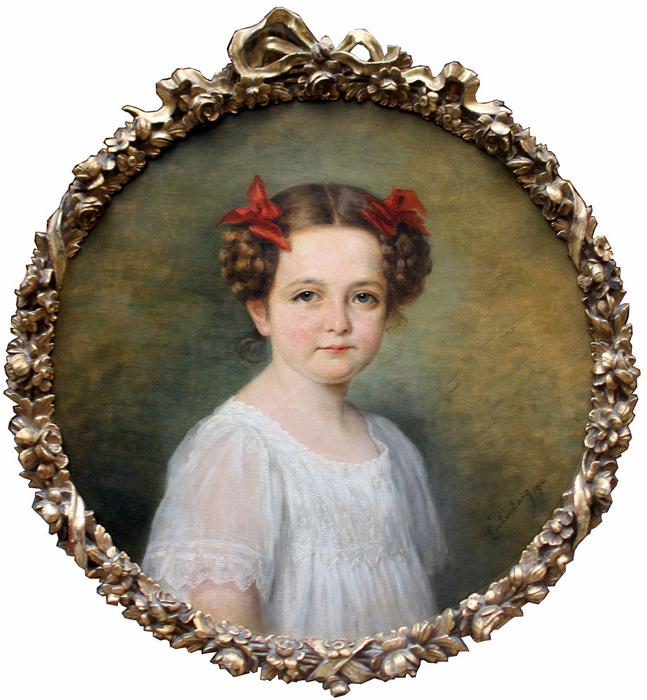 Mädchenporträt